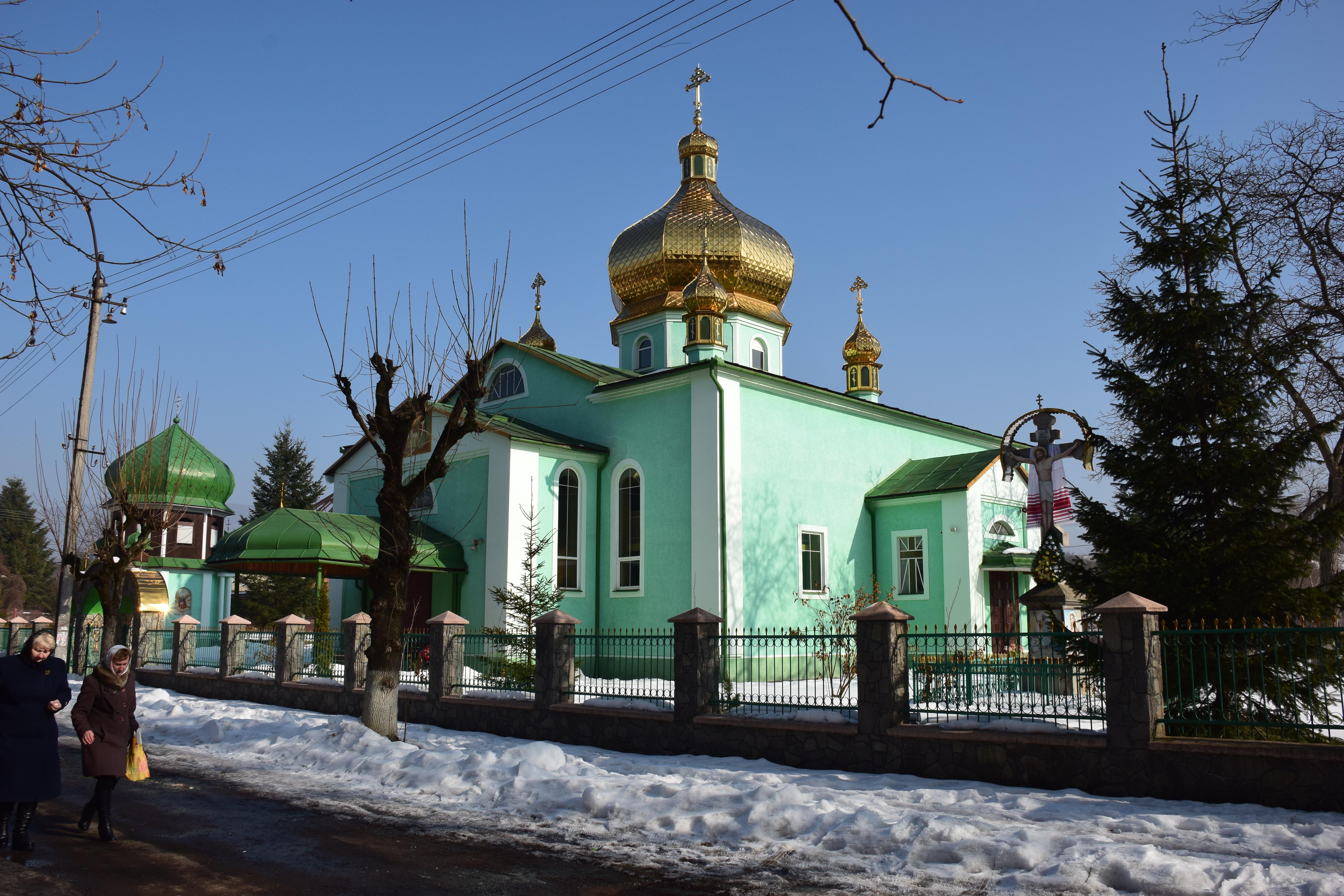 Church of the Holy Trinity in Velykyi Bereznyi, Ukrainian Orthodox Church Moscow Patriarchate, built 1997